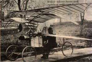 Flugan (The Fly), early steam powered aeroplane by Carl Rickard Nyberg. Photo from ca 1900. The caption at the top says "Blifver månne denne man rymdens eröfvrare?" ("May this man become the conqueror of space?")